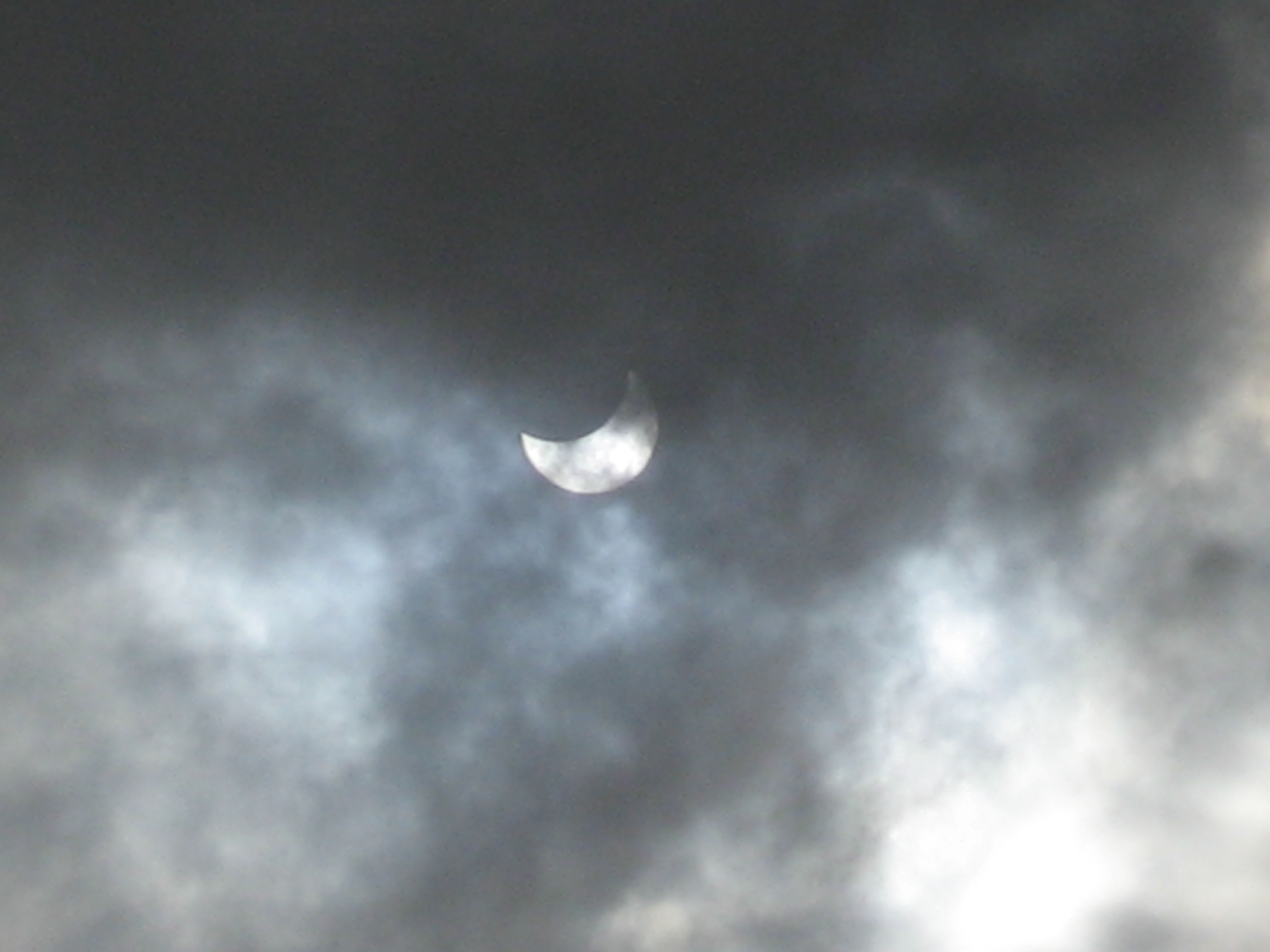 Solar eclipse of 2008 August 1 (Moscow)